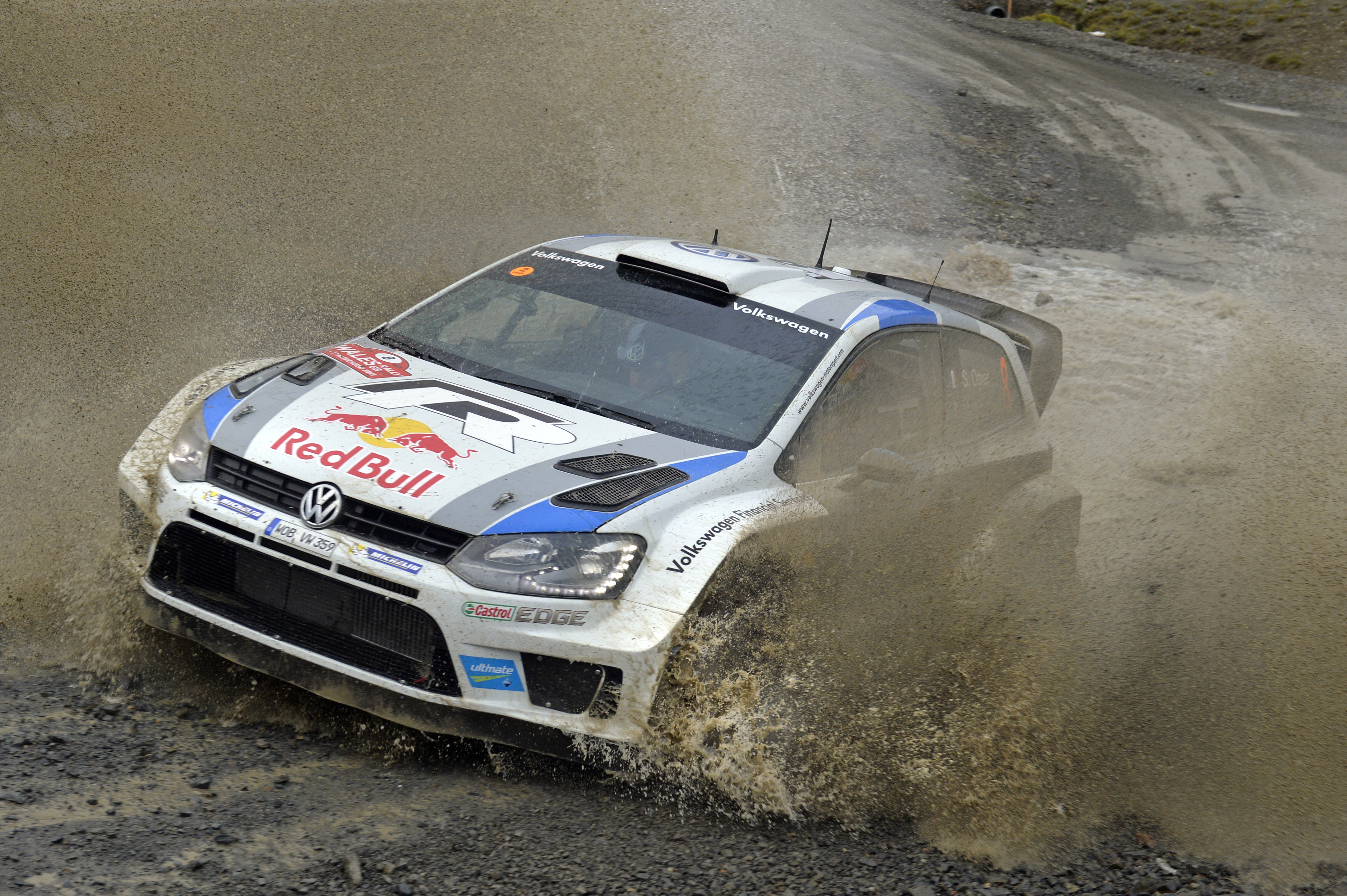 Sébastien Ogier and co-driver Julien Ingrassia in their VW Polo R WRC at the 2013 Wales Rally GB.